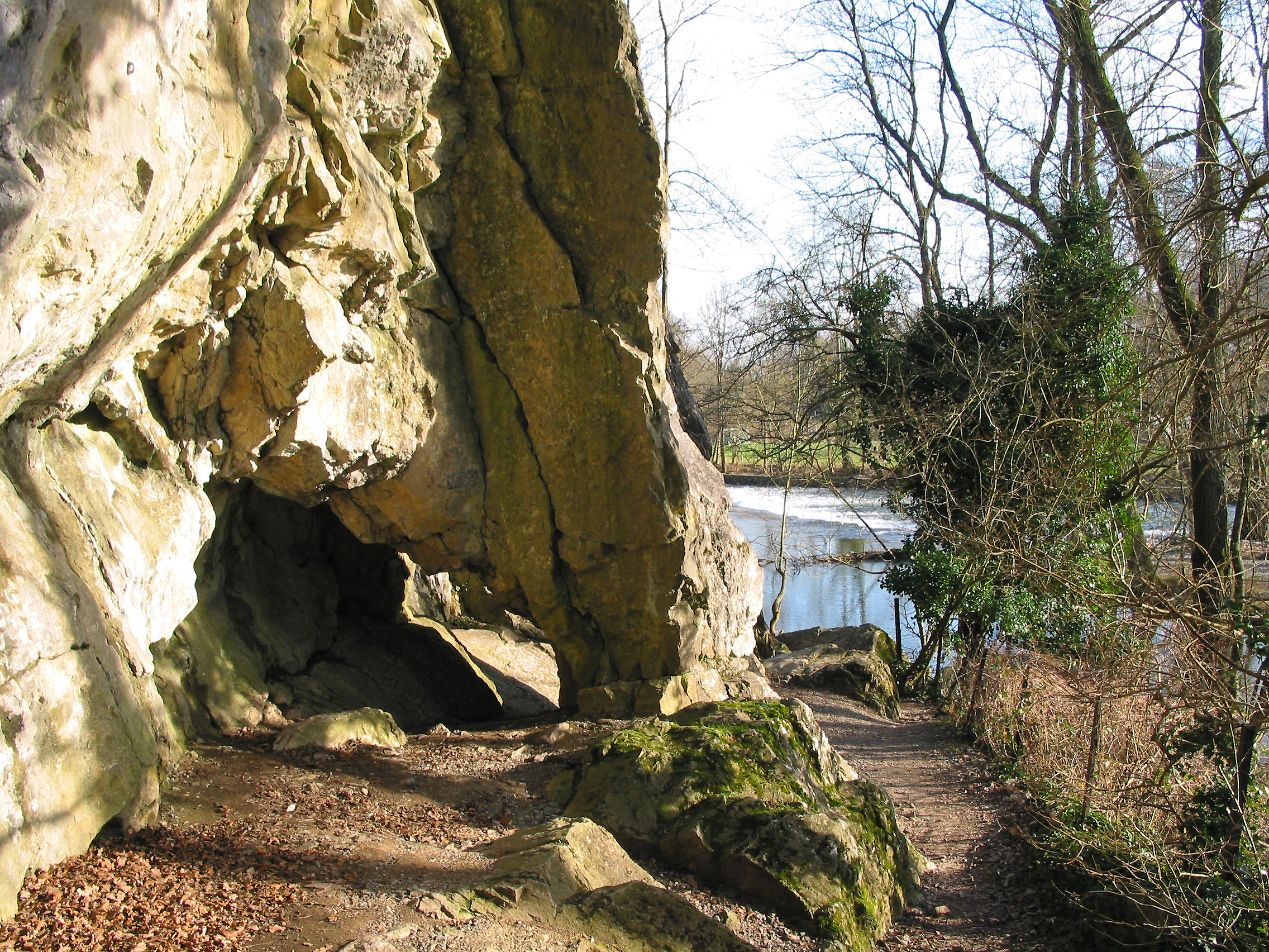 Hotton, cavity on the right bank of the Ourthe river at the named place "Su lès His". Walon: Hoton, trô d'nutons sul rîve dreûte di l'Oûte a l'place k'on lume "Su lès His".